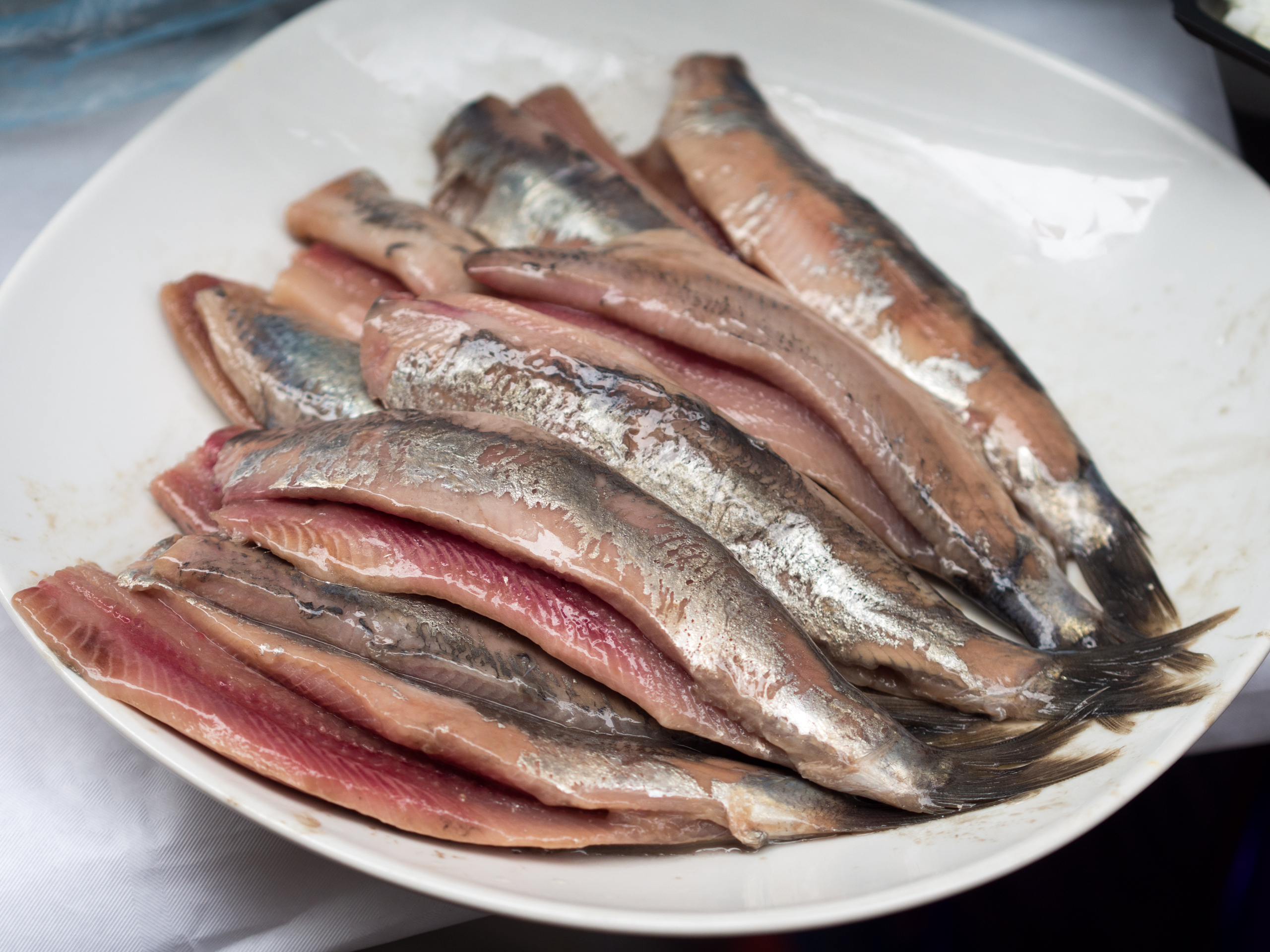 A plate full of Dutch herring, ready to be eaten